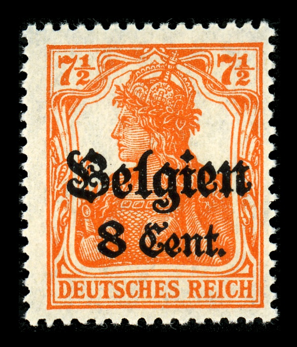 Stamp of Germany, WW1, overprint "Belgium".